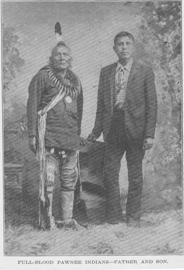 Illustration from 1912 book KANSAS: A Cyclopedia of State History, Embracing Events, Institutions, Industries, Counties, Cities, Towns, Prominent Persons, Etc